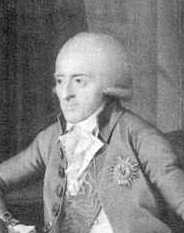 Frederick, Hereditary Prince of Denmark (detail of a portrait of the family of the Prince Frederick of Denmark)